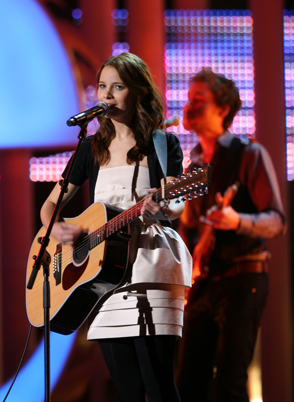 Nobel Peace prize Concert 2008, Oslo Spektrum, Marit Larsen